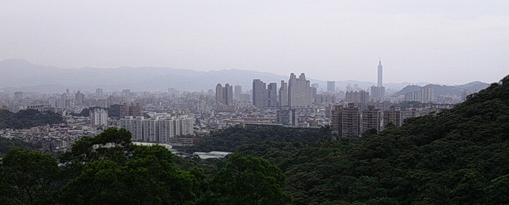 City skyline of Zhonghe (also called "Chung-Ho" or "Jhonghe") in Taipei County, Taiwan.